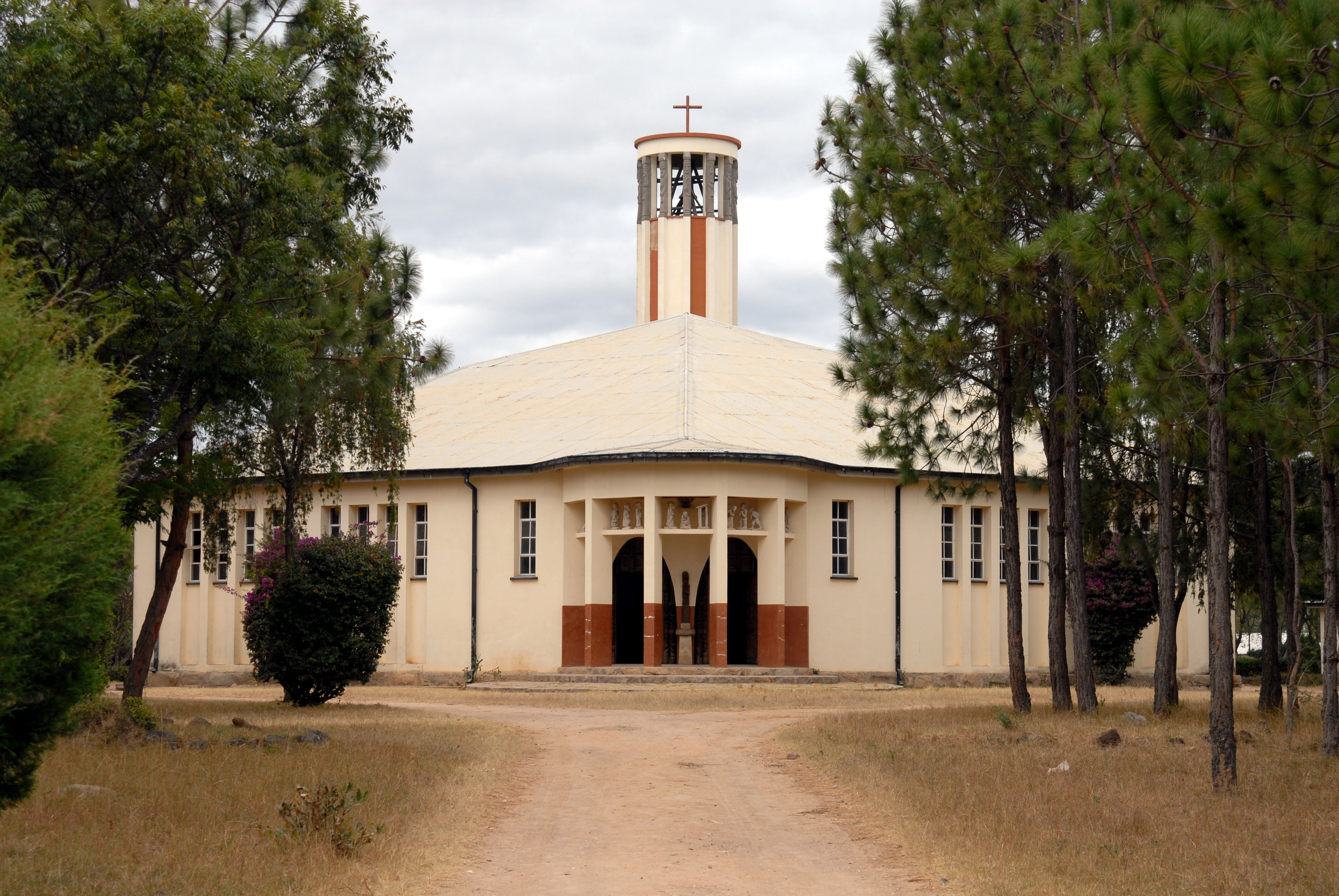 A digital photograph of St Mary's